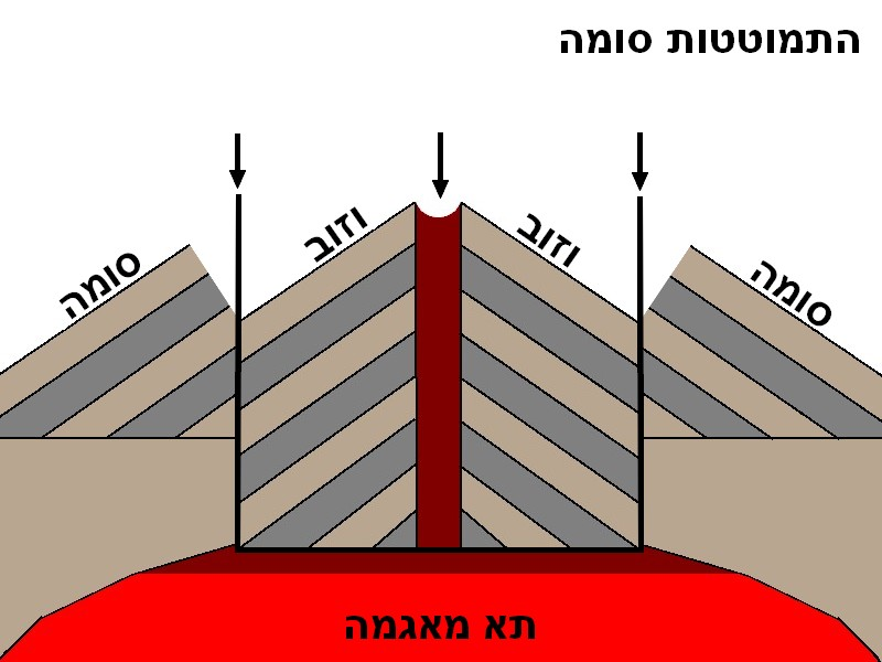 Formation of Vesuvius - stage 3/3